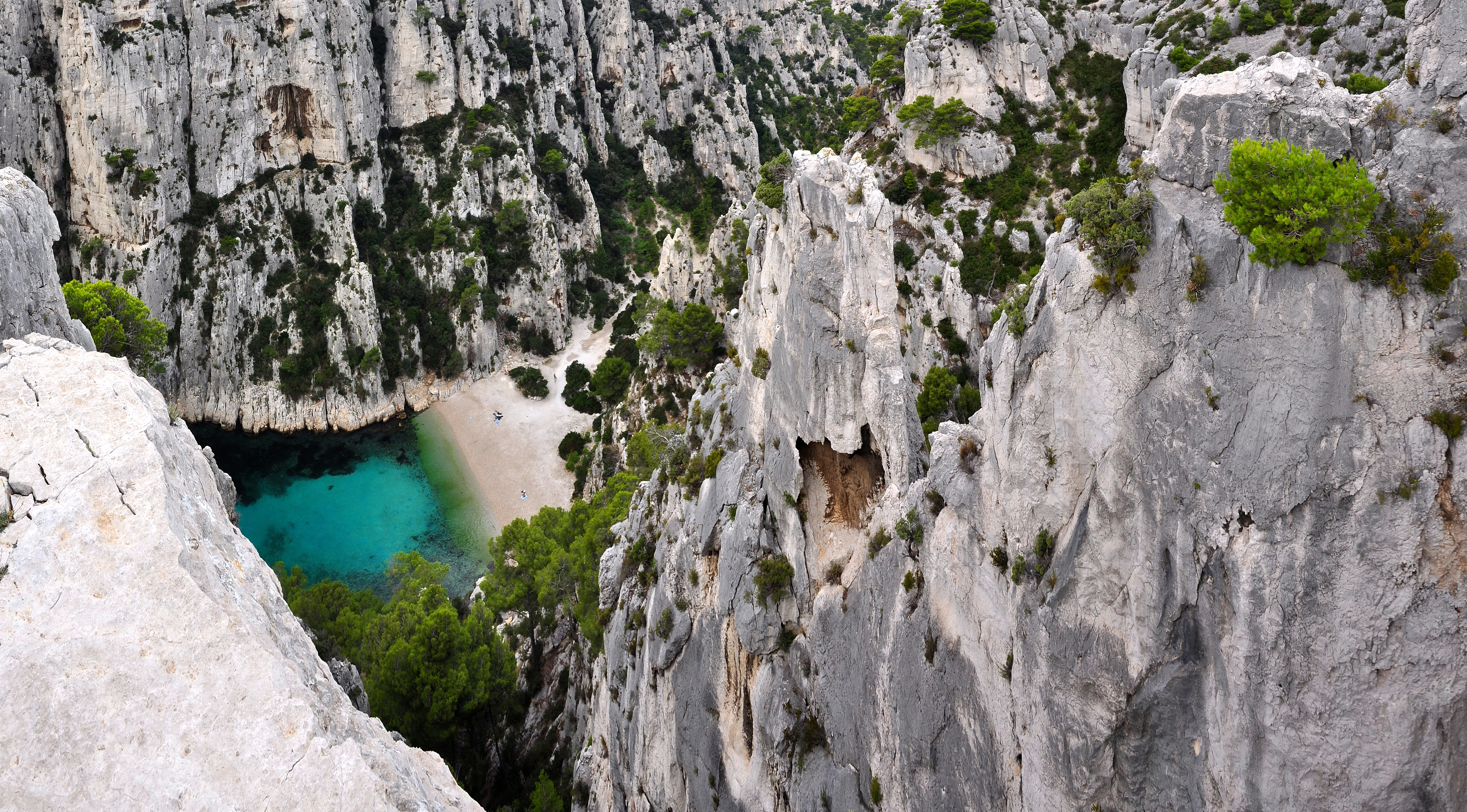 view on Calanque d'En Vau